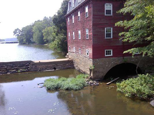 Kingston Mill Historic District